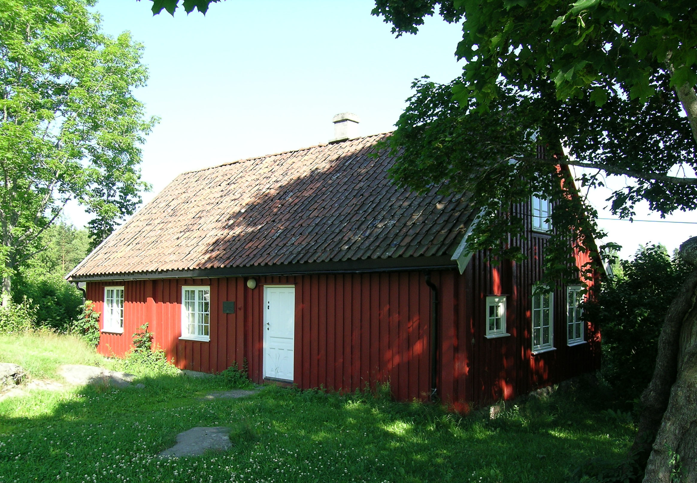 The house in Vestby, Akershus where Johan Herman wessel was born.